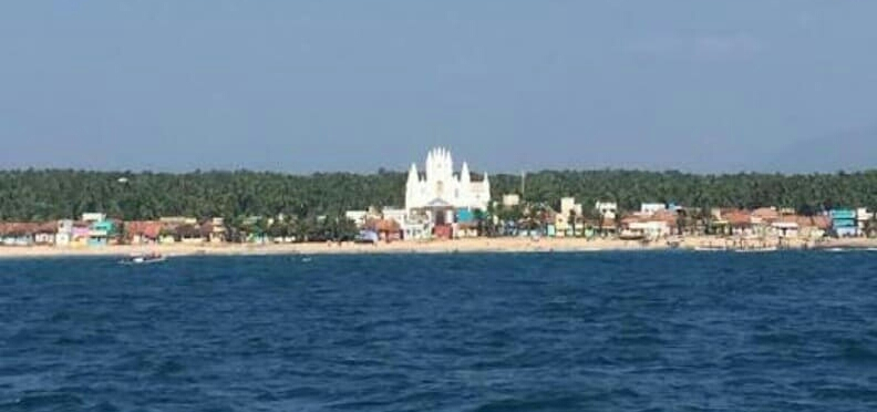 The picture describes the beauty of Vaniyakudi which includes all the resources